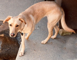 Mixed breed dog, whose parents were a pedigreed German Shepherd and a pedigreed Golden Retriever. "Amber" at 14 months (still a skinny teenager) Taken Feb. 1980 by Elf